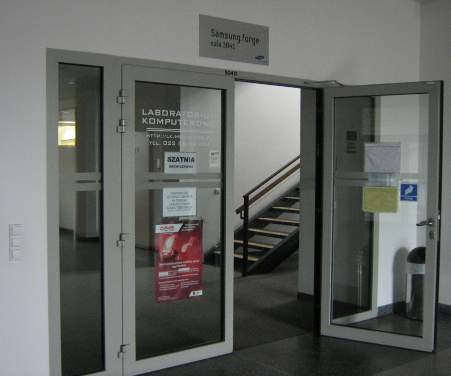 Faculty of Mathematics, Informatics and Mechanics (University of Warsaw). Entrance of the computer laboratory.